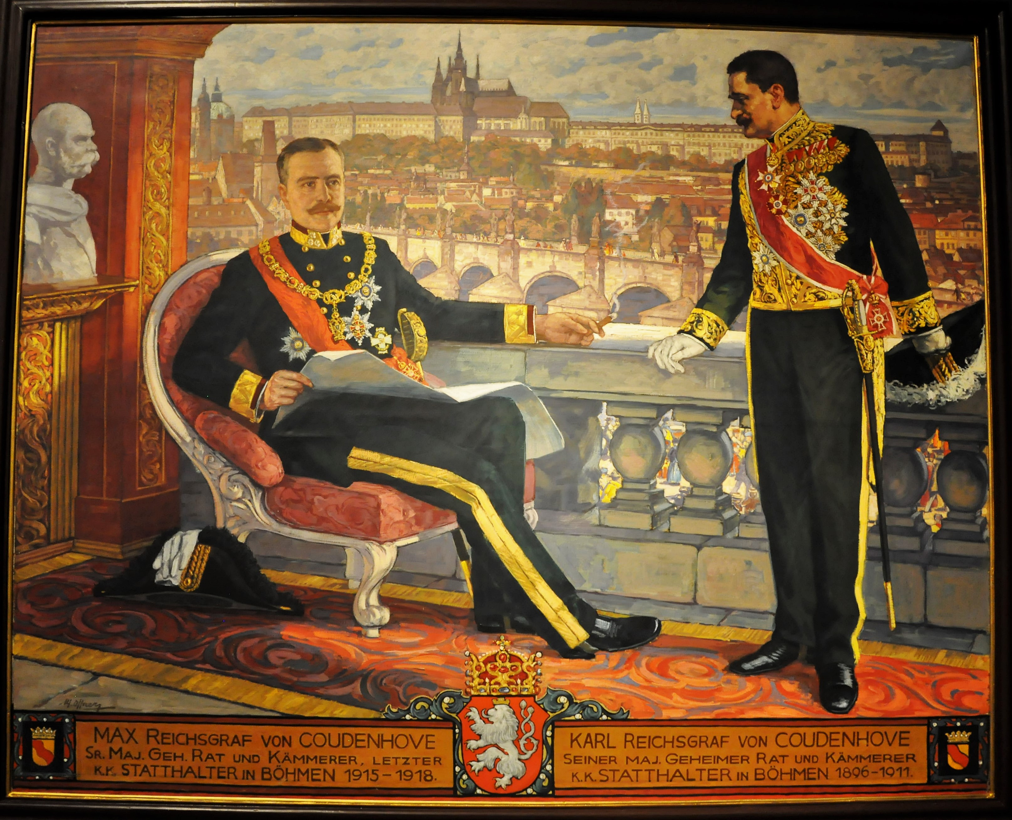 Max and Karl Coudenhove who led the government of the Kingdom of Bohemia before the WW1.